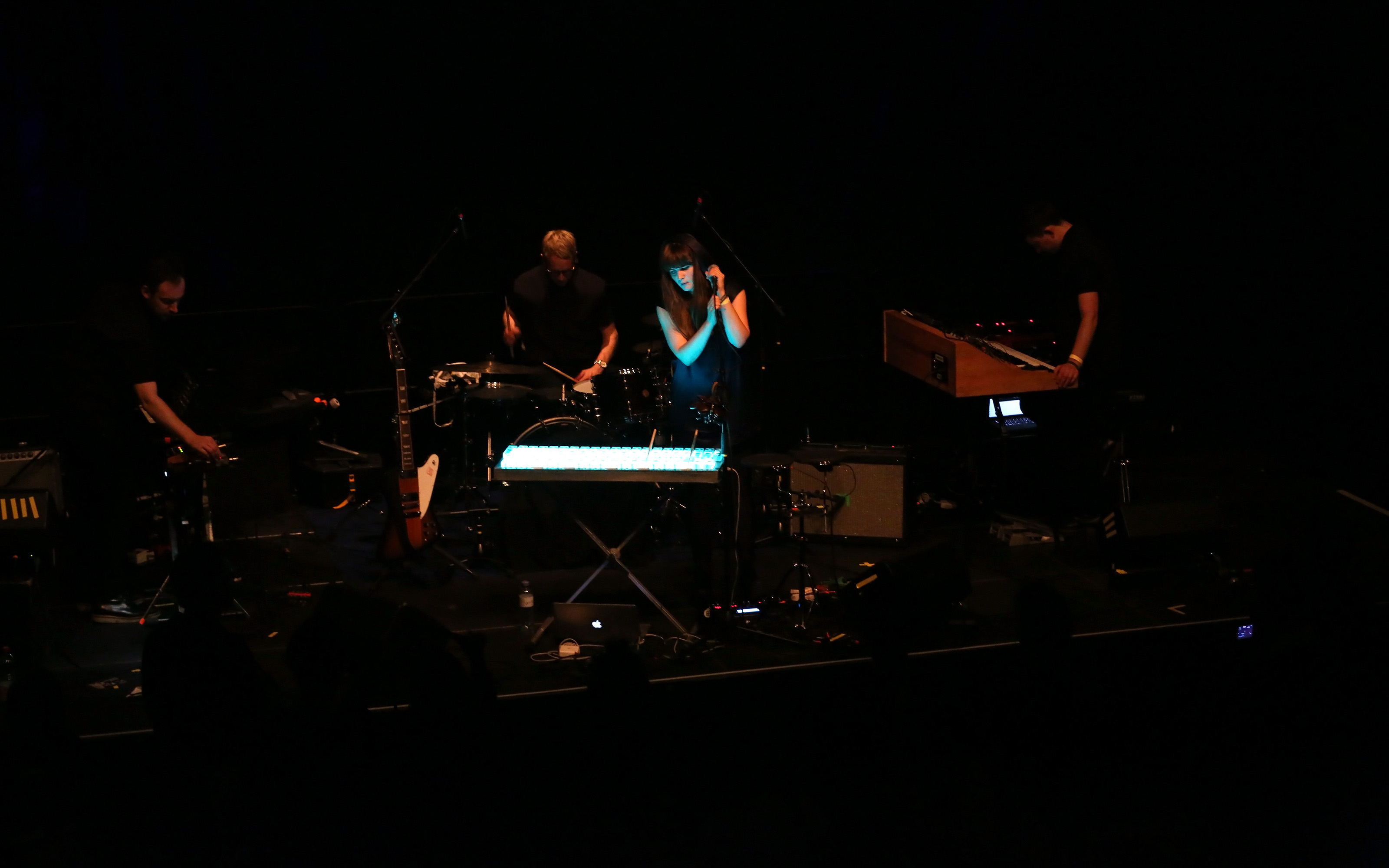 Jennie Abrahamson, concert at brut during Waves Vienna Music Festival & Conference 2014 in Vienna, Austria.